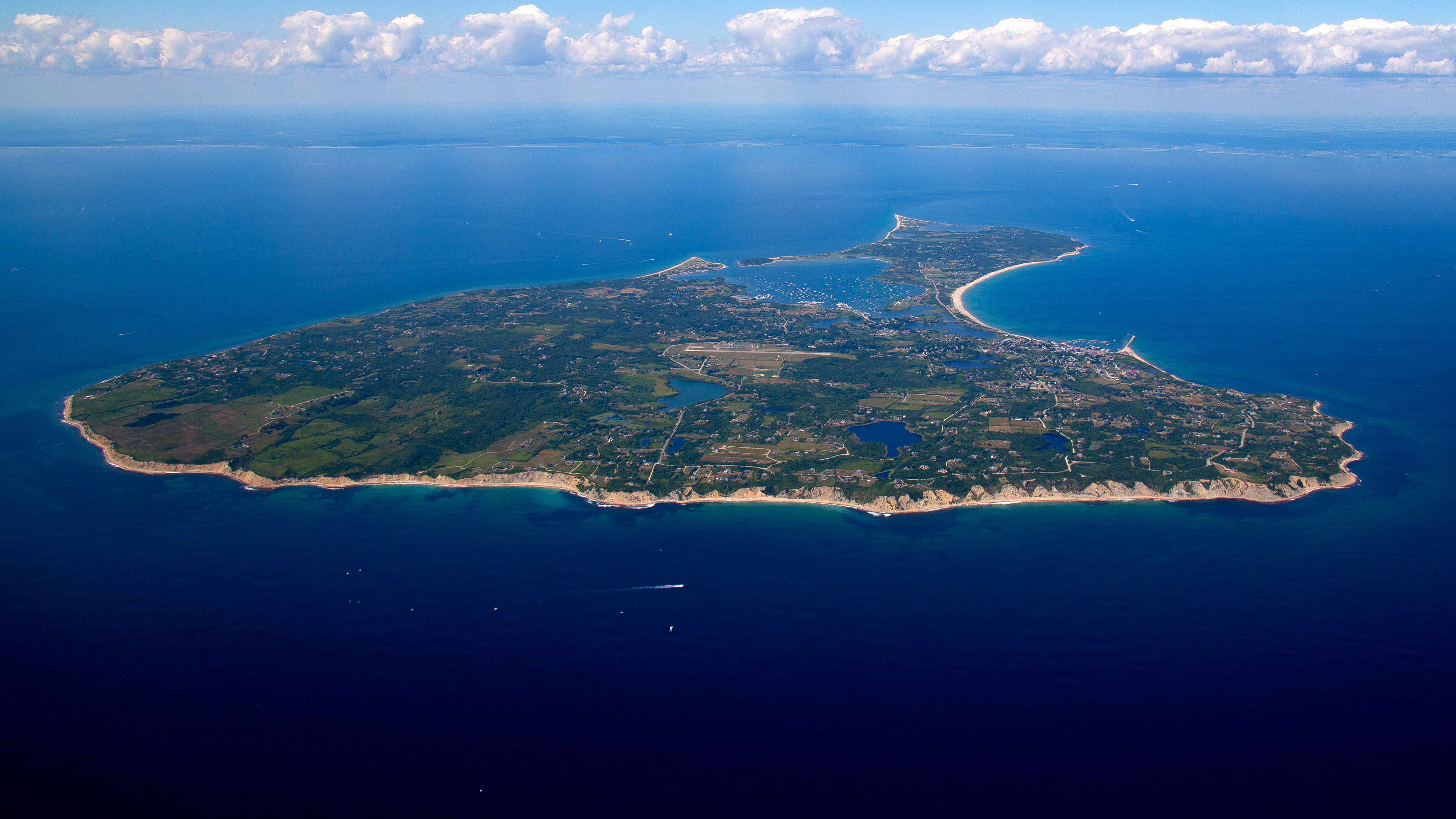 Block Island, Rhode Island aerial view from South with Rhode Island Coastline in the distance.